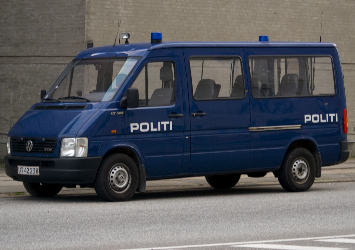 Volkswagen LT 35 Mk.2 Combi 2.5 TDI operated by the police of Denmark.